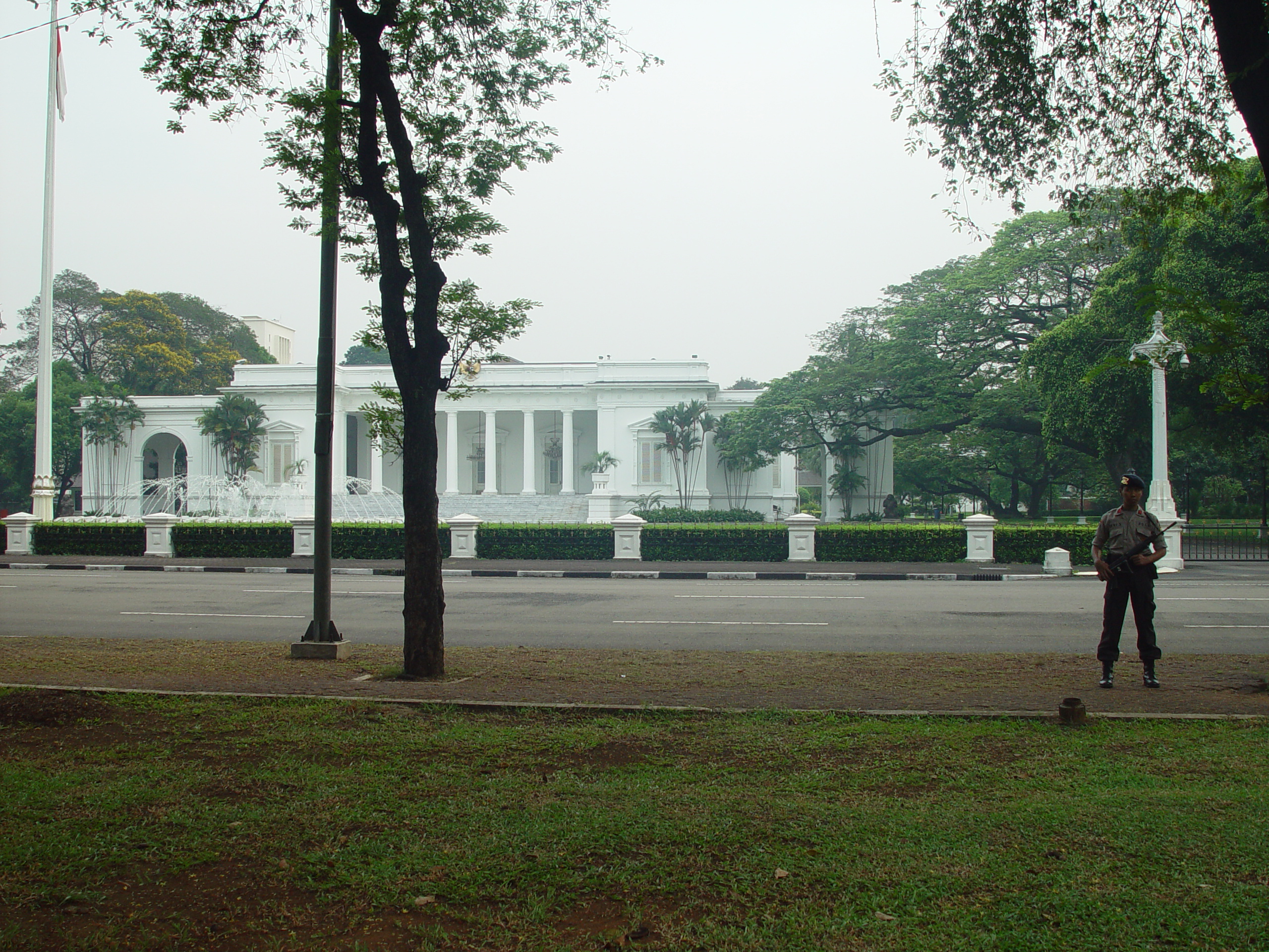 Farmer land rights protest in Jakarta, Indonesia.